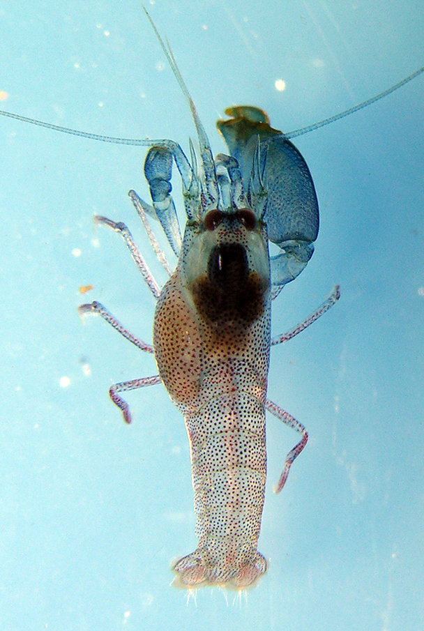 Synalpheus fritzmuelleri Coutière, 1909 (Caridea: Alphaeidae) from Caribbean Panama, with unidentified bopyrid, possibly Bopyrella harmopleon Bowman, 1956 (known from this host in Venezuela). Photograph used by permission of Arthur Anker.